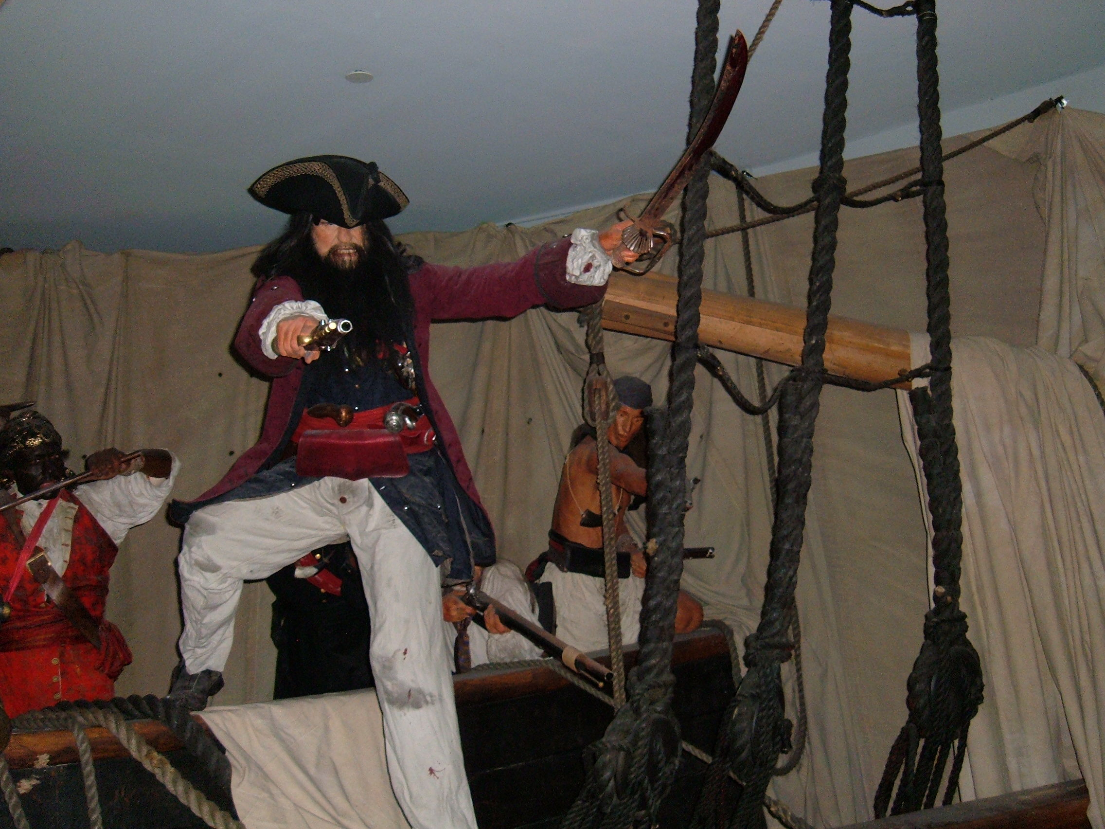 A depiction of a boarding by Blackbeard and his crew at the Pirates of Nassau museum in Nassau, The Bahamas.